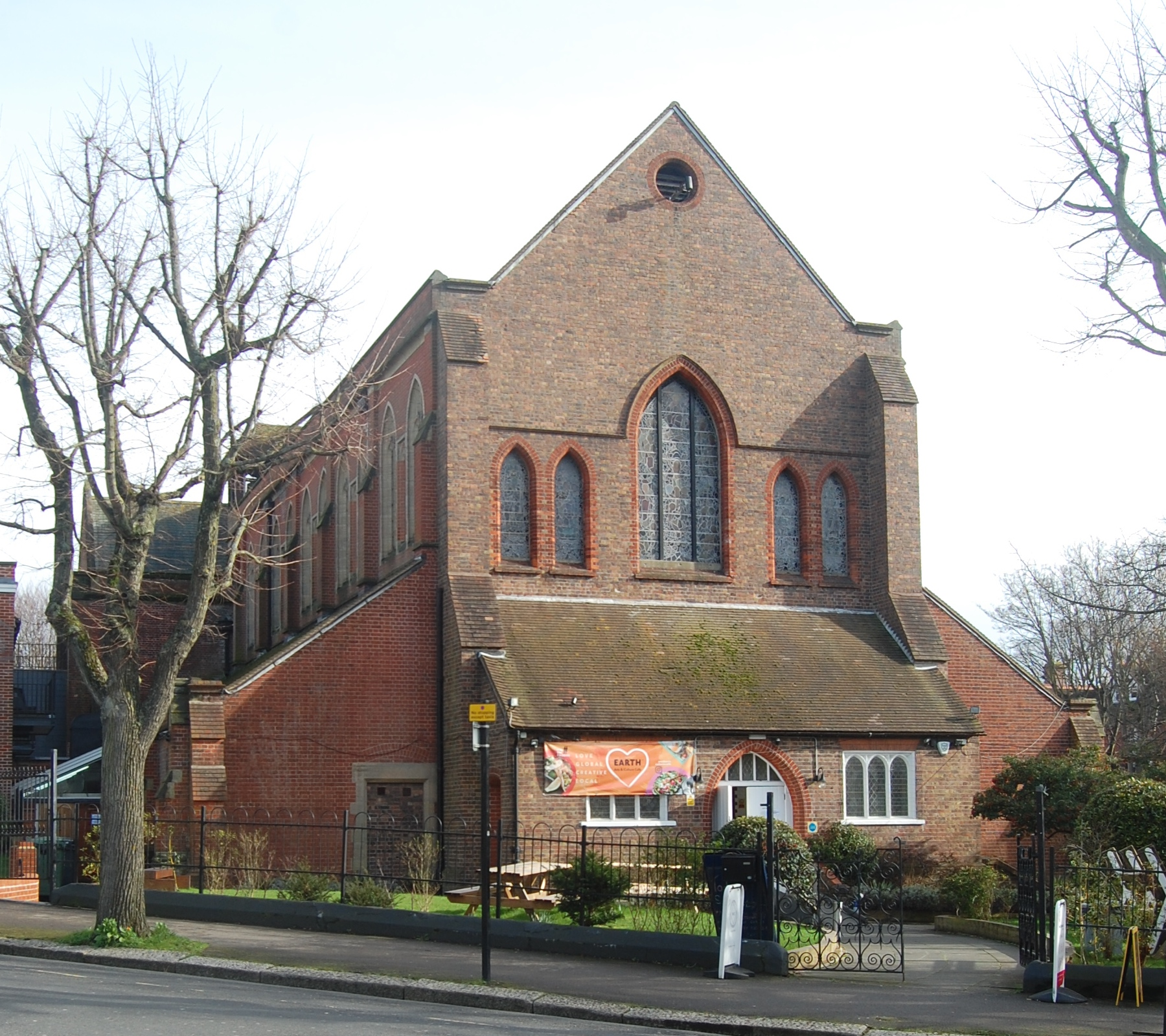 Former St Augustine's Church, Florence Road/Stanford Avenue junction, Preston Park, Brighton, City of Brighton and Hove, England. The Anglican church serving the south end of the Preston Park area of the city was opened in 1896 and extended in 1914. It closed in 2002 and has been converted into flats and a community space.